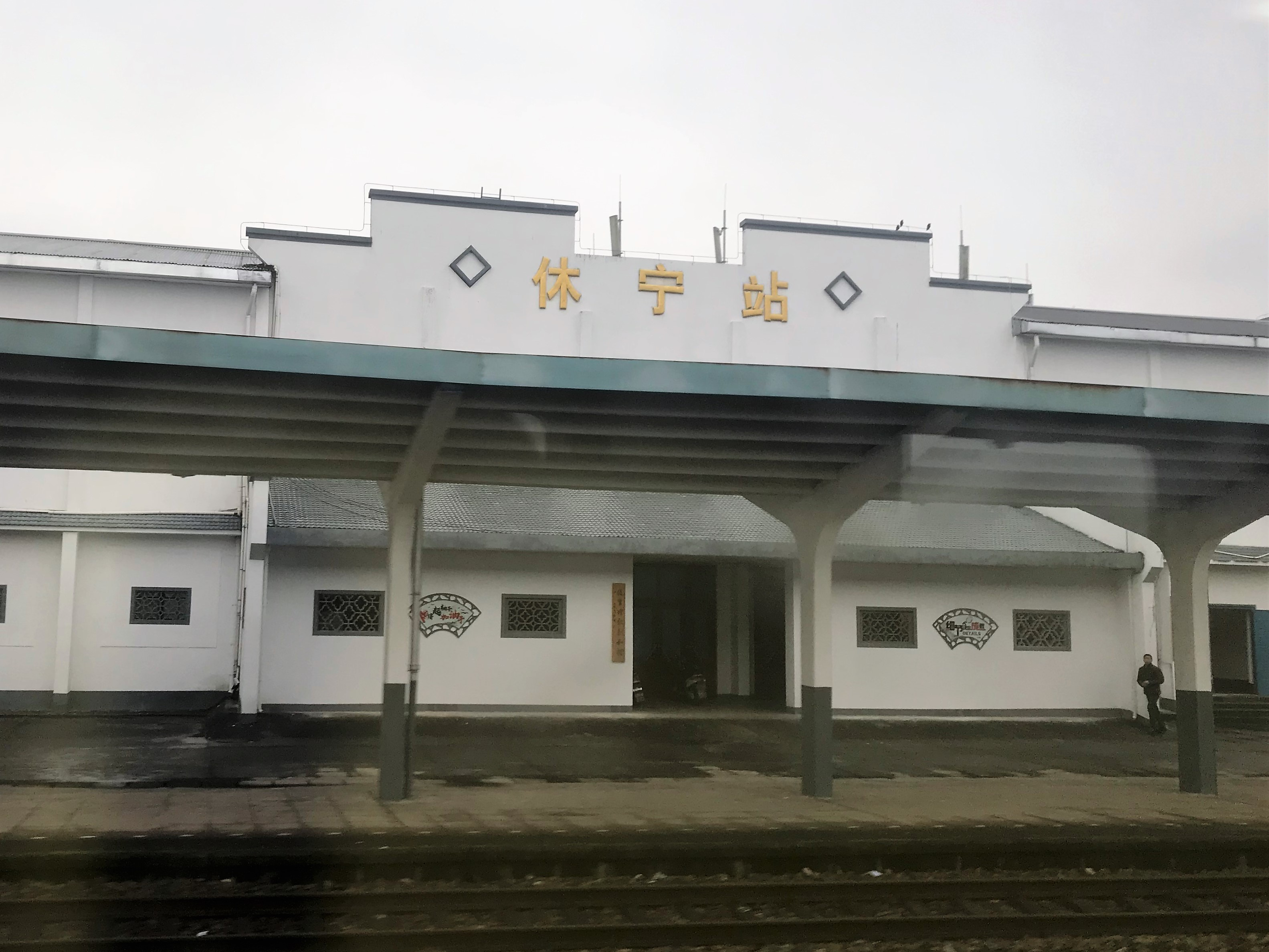 K45 passes through the station by using track 3 since there are 3 HXN5 locomotives on the main track.